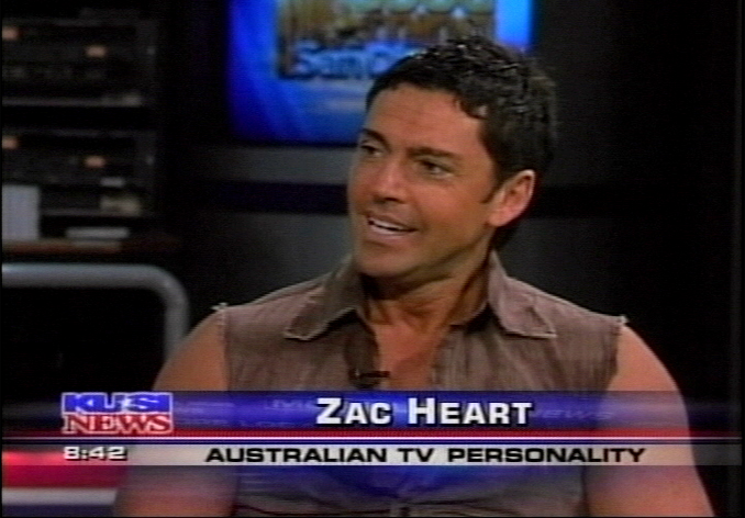 Zack Heart as Outback Zack makes guest appearance on KUSI News Good Morning San Diego.